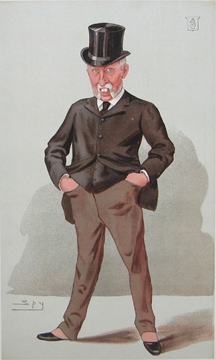 Caricature of Sir Joseph Pease MP. Caption read "Peace:.